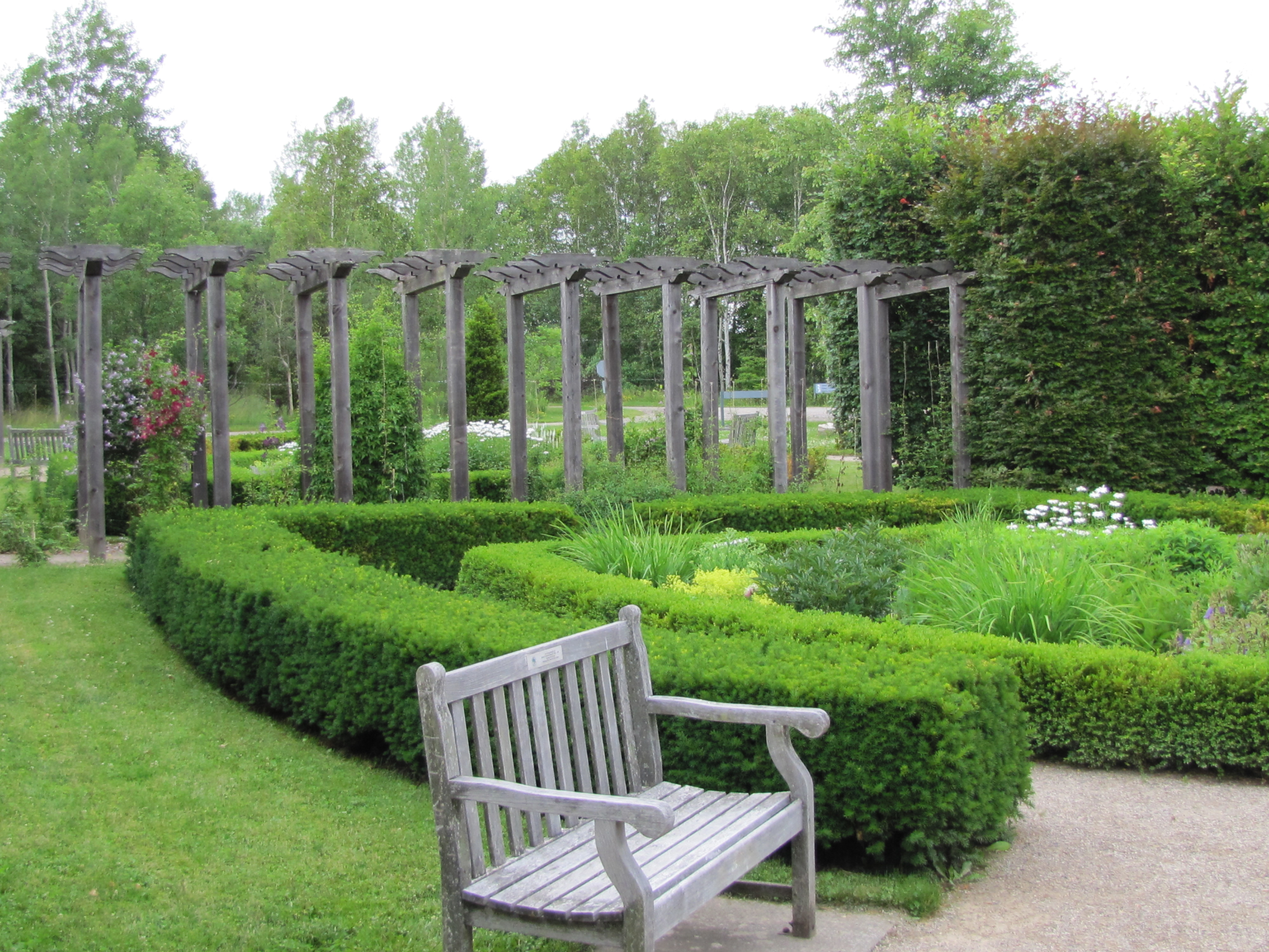 Part of the English Garden in the Guelph Arboretum